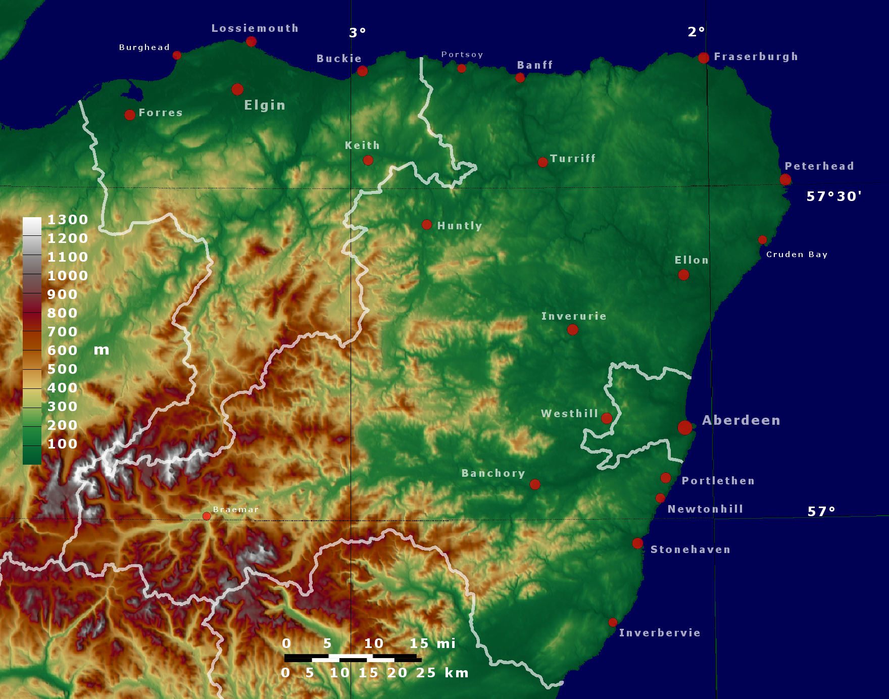 Map created with 3DEM from SRTM (